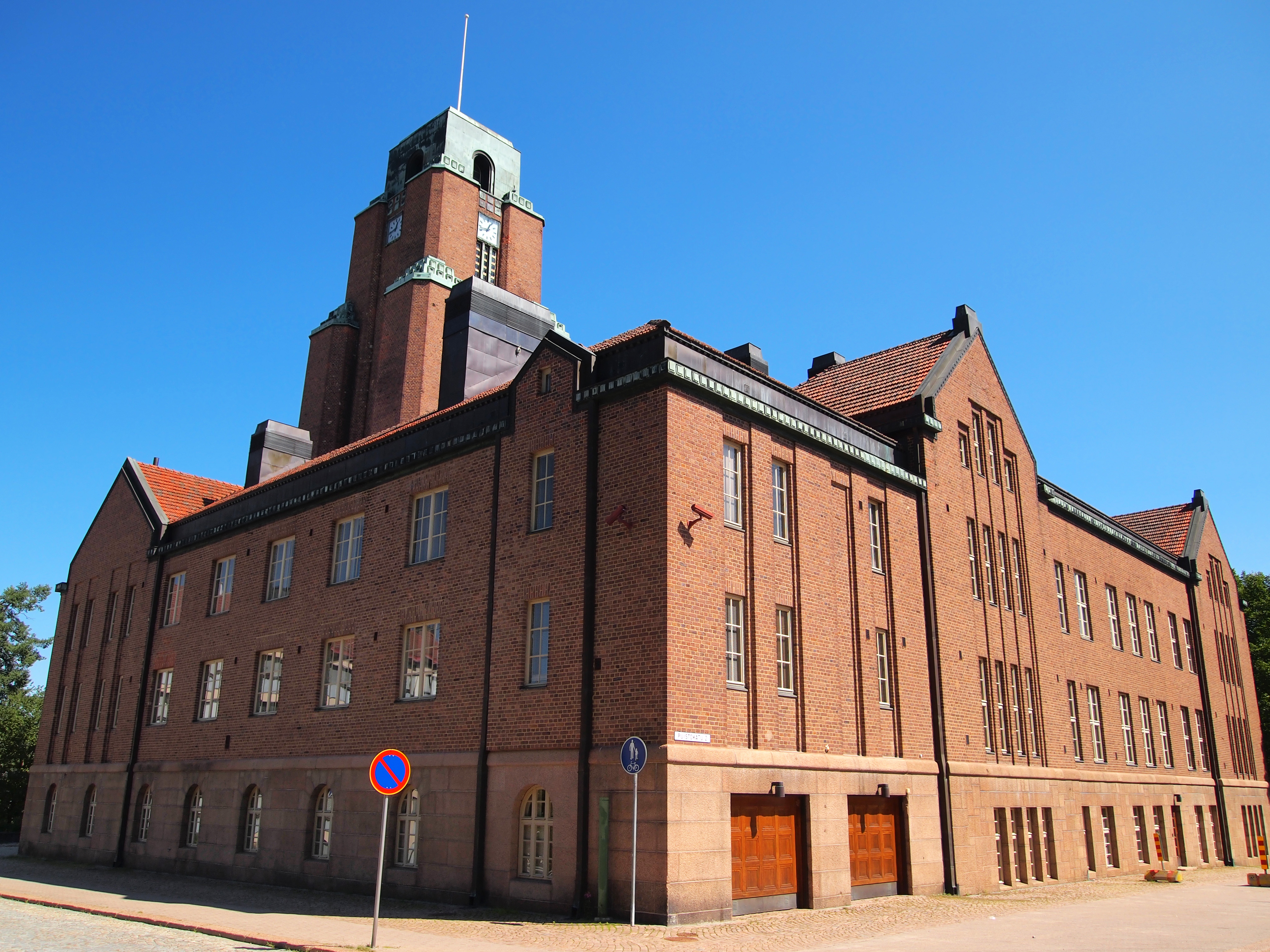 Lahti City hall.